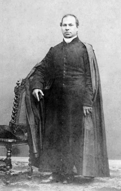 Kardinal Domenico Lucciardi (1796-1864)